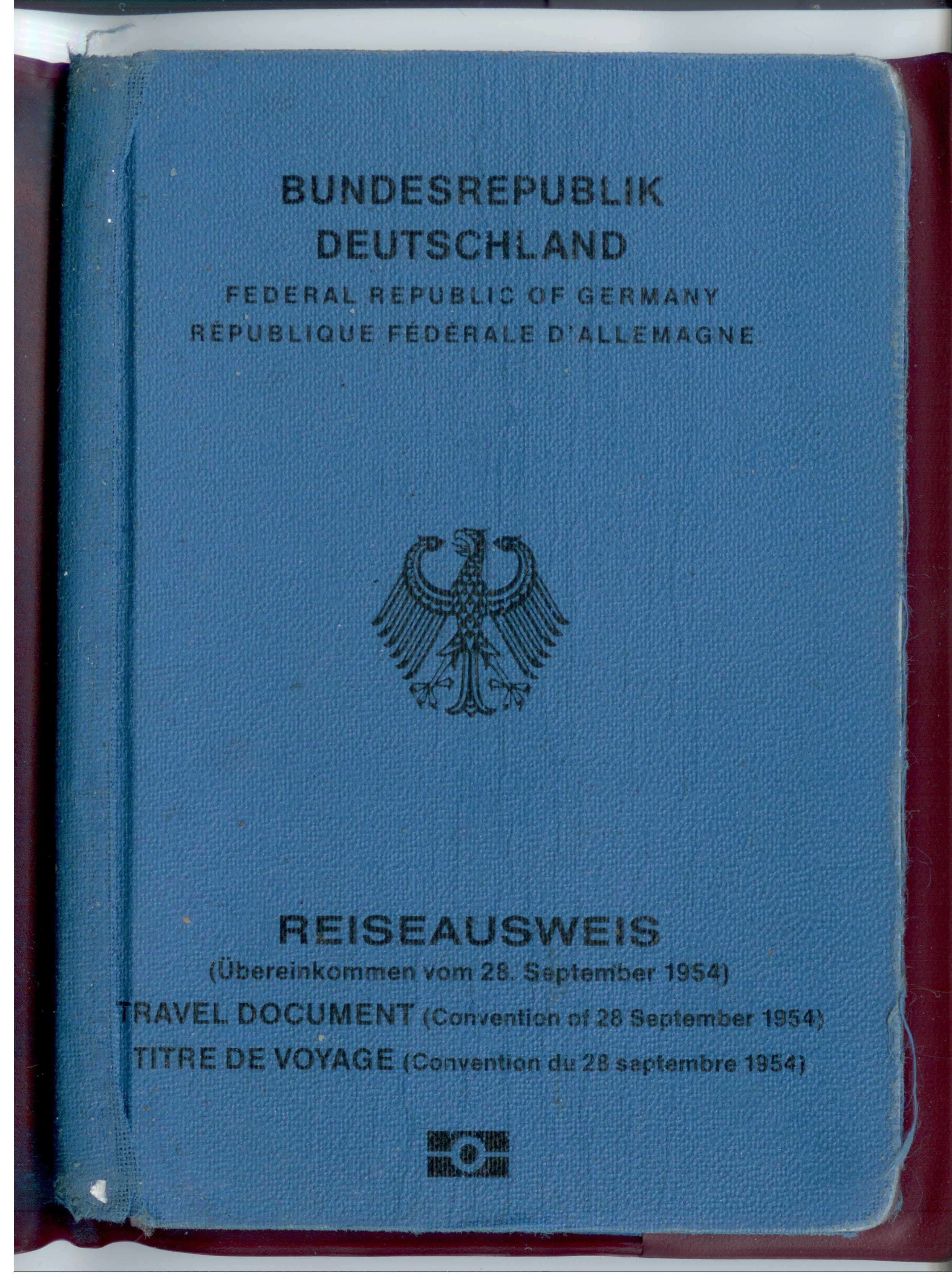 1954 Convention Travel Document, issuing authority: Germany 2008, outside